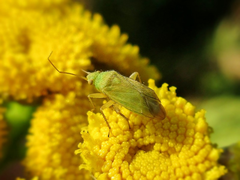 Megalocoleus tanaceti (Miridae sp.), Lentse Waard, the Netherlands